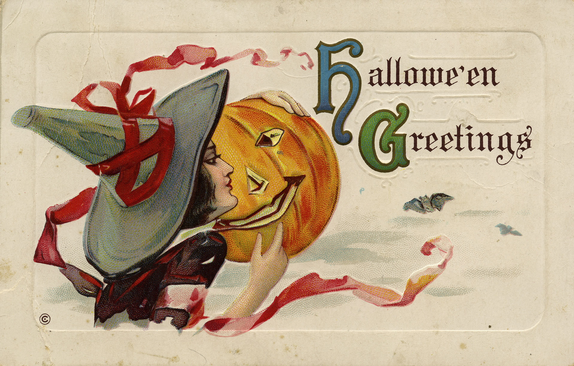 We've recently digitised a lot of ephemera ("printed items not intended to be kept permanently") from the Osborne Collection. This charming little Hallowe'en greeting card is one of these items. You can see more on our Digital Archive (goo.gl/sarwyN). Creator: Unknown Date: 1900 Identifier: OSB-CARDS-N-148 Format: Ephemera Rights: Public domain Courtesy: Toronto Public Library. More information: (view details and larger image)